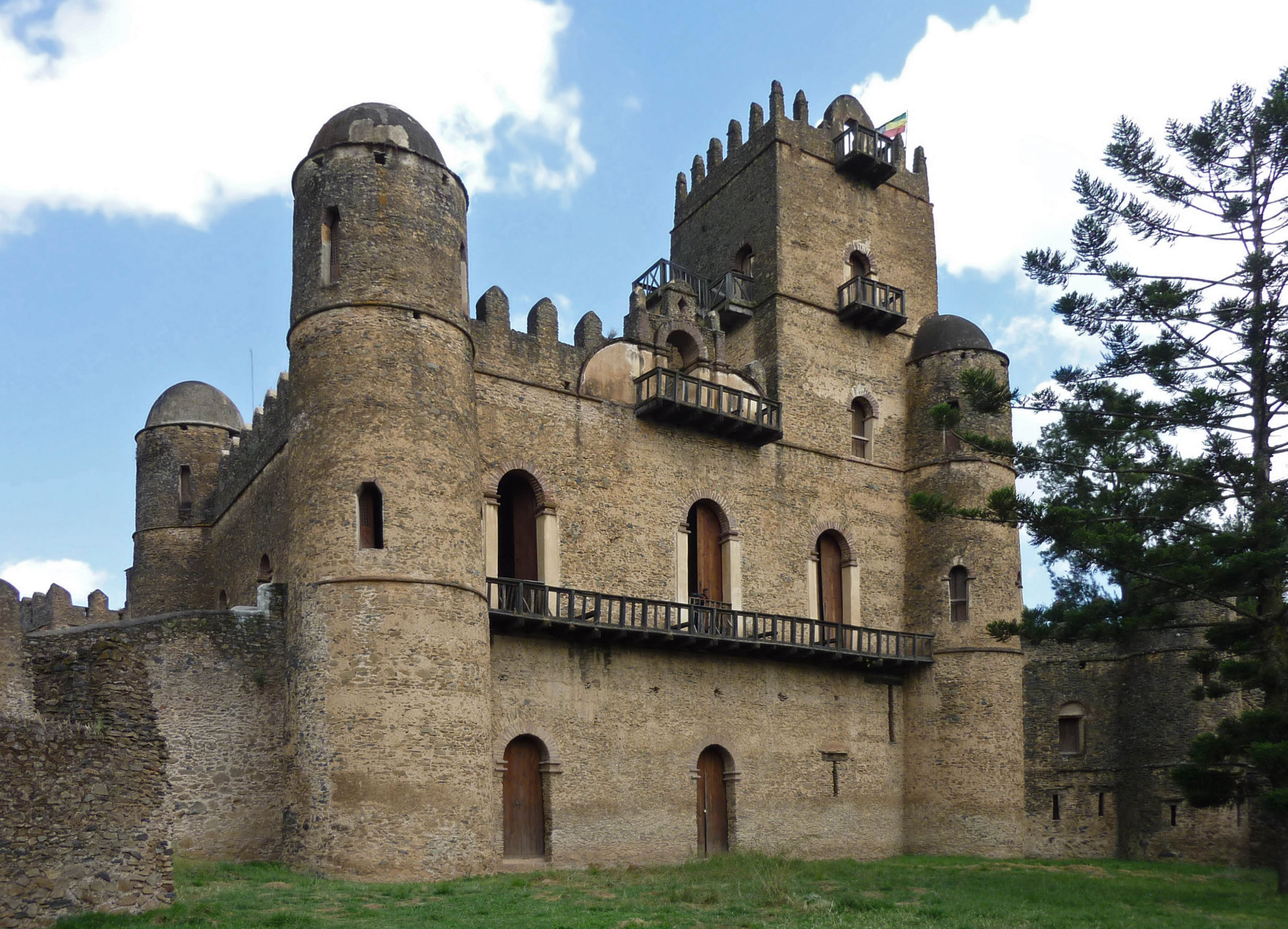 Fasilides Palace in the Fasil Ghebbi, Gondar, Ethiopia